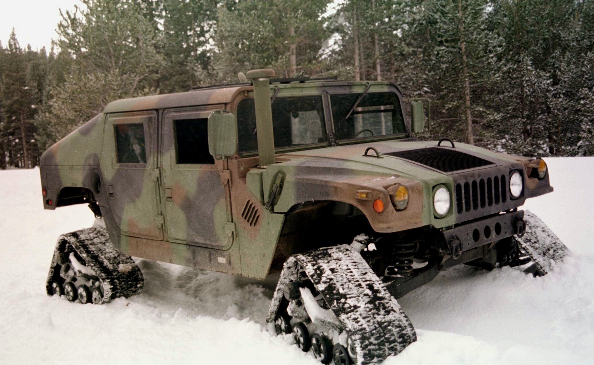 A test Humvee, equipped with four separate tracks for over the snow mobility, is used to support training at the Mountain Warfare Training Center, Bridgeport, Calif.